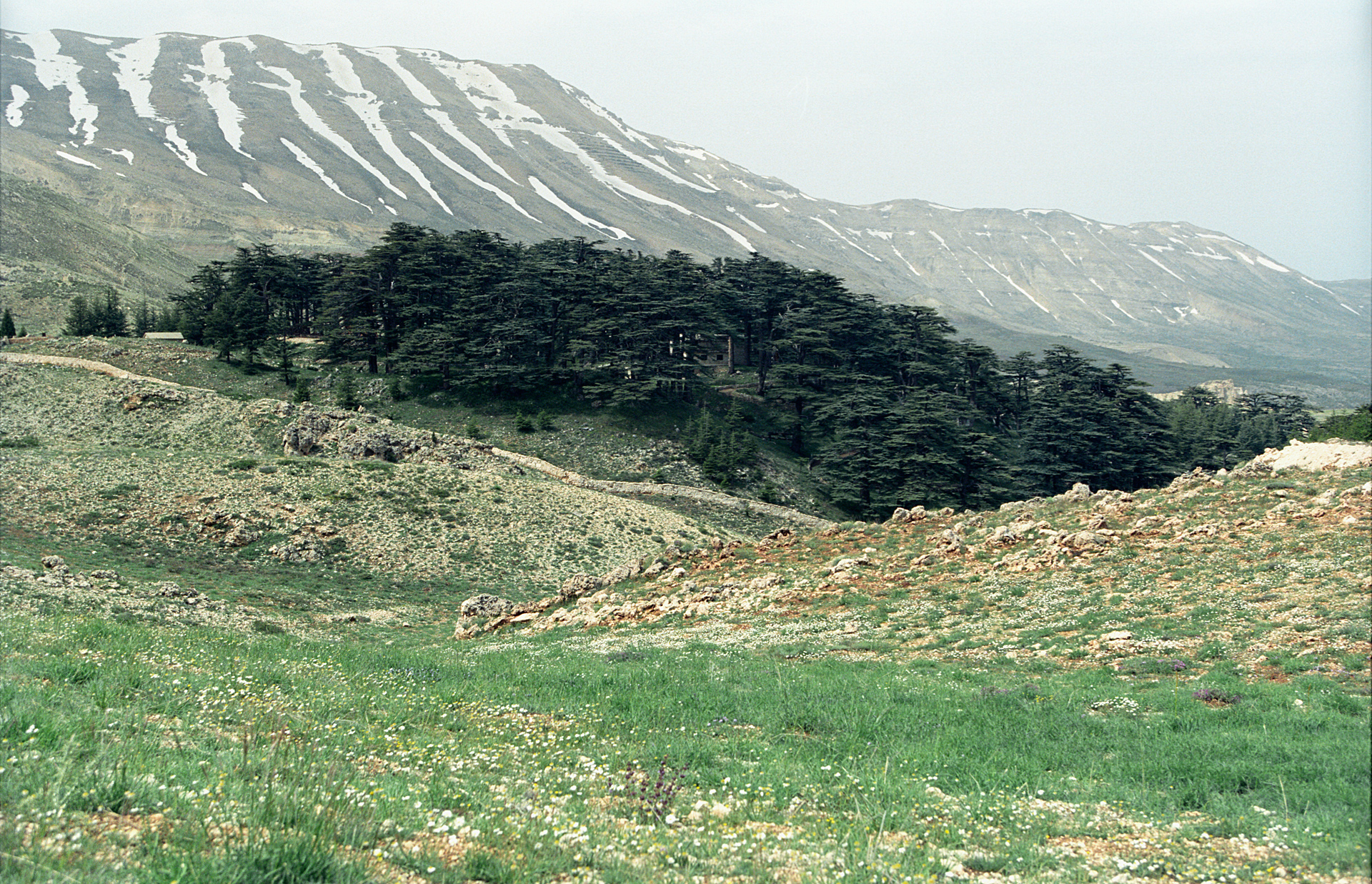 Cedrus libani var. libani — Lebanon Cedars; old and sacred grove. In the Cedars of God nature preserve in the Mount Lebanon Range, North Lebanon.